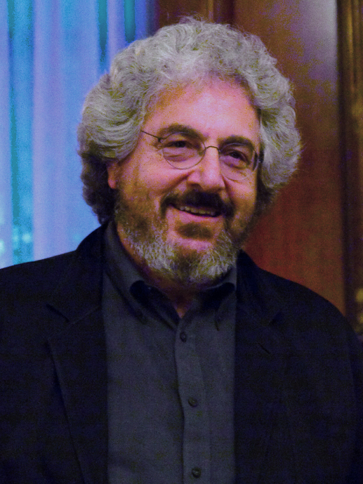 Taken 10/13/09, during the event with actor-writer-director Harold Ramis who has had various levels of involvement with movies such as Animal House, Caddyshack I & II, Groundhog Day, Stripes, Analyze This and Analyze That, Ghostbusters I & II, Bedazzled, Year One, Multiplicity, The Ice Harvest, National Lampoon's Vacation, Stuart Saves His Family, and Meatballs.